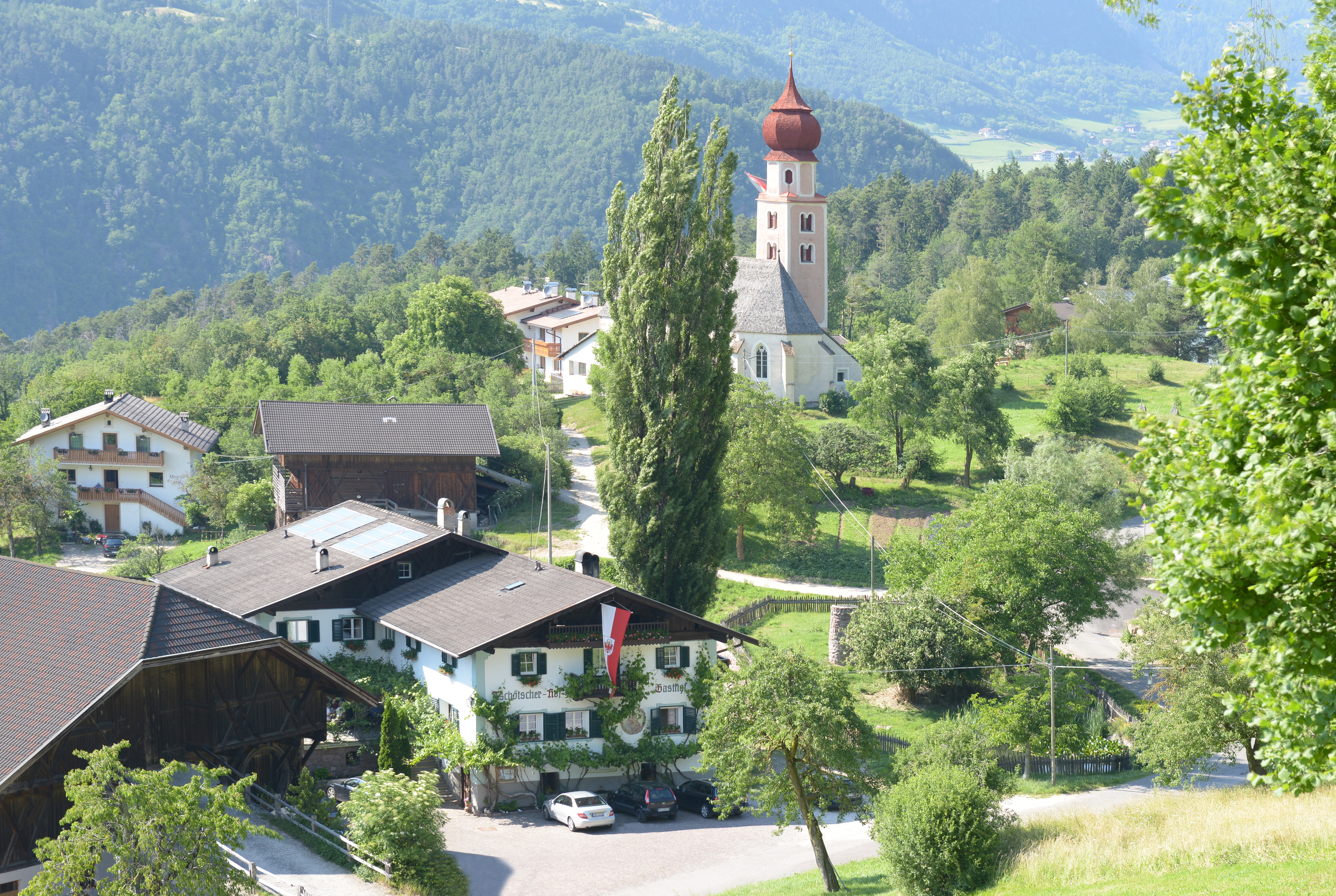 Saint Oswald church in Kastelruth